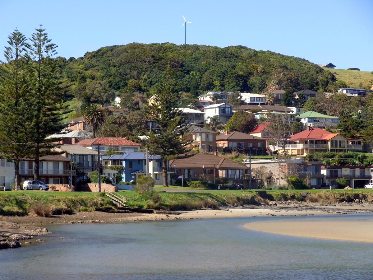 Gerroa, NSW, Australia with littoral rainforest hill